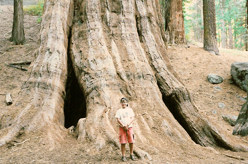 a good illustration of the size of a sequoia